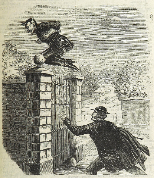 Spring-Heeled Jack jumping over a gate Image obtained from: A 19th century "penny dreadful" illustration. From the BBC Hulton Picture Library.